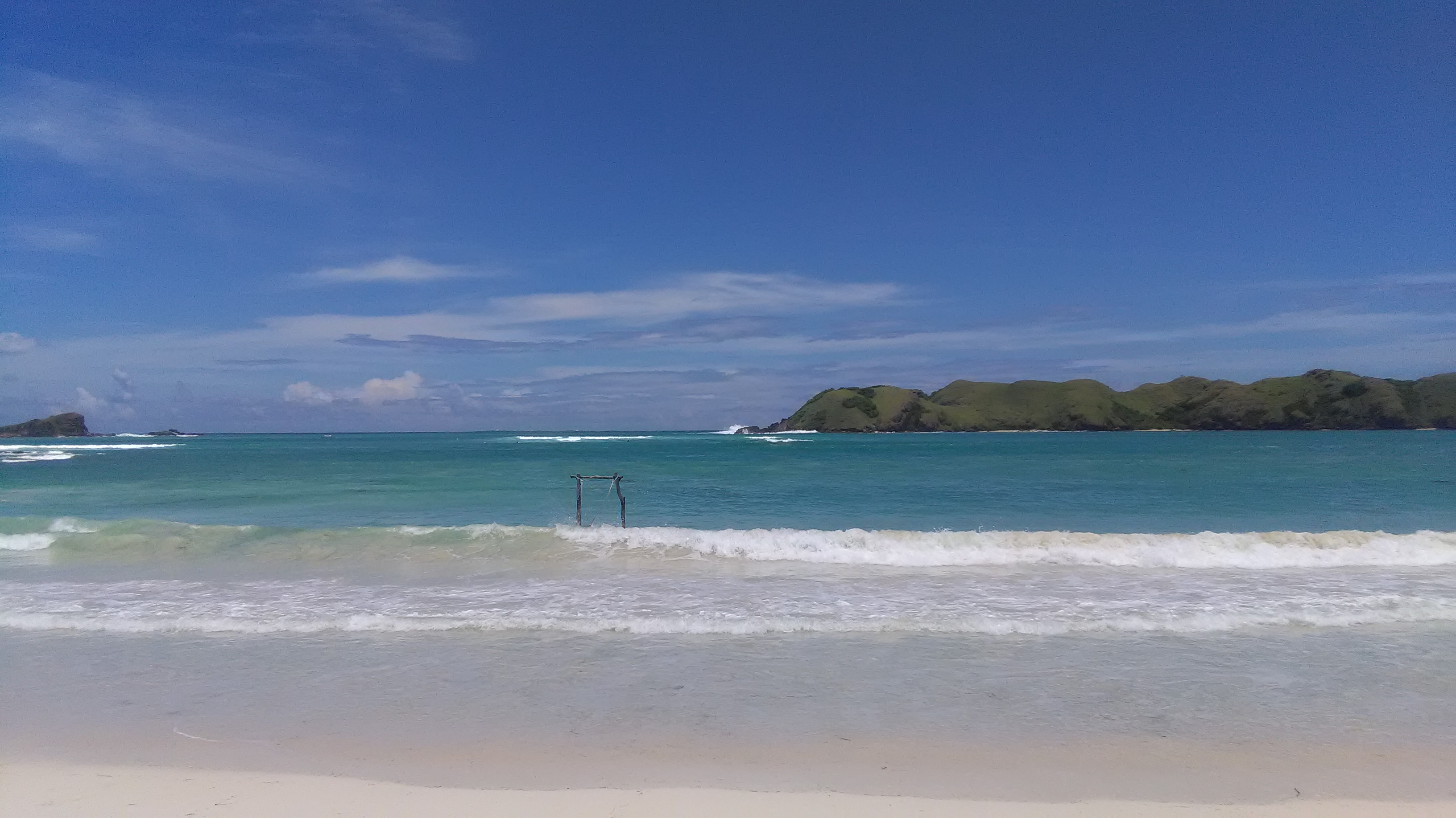 Tanjung Aan Beach